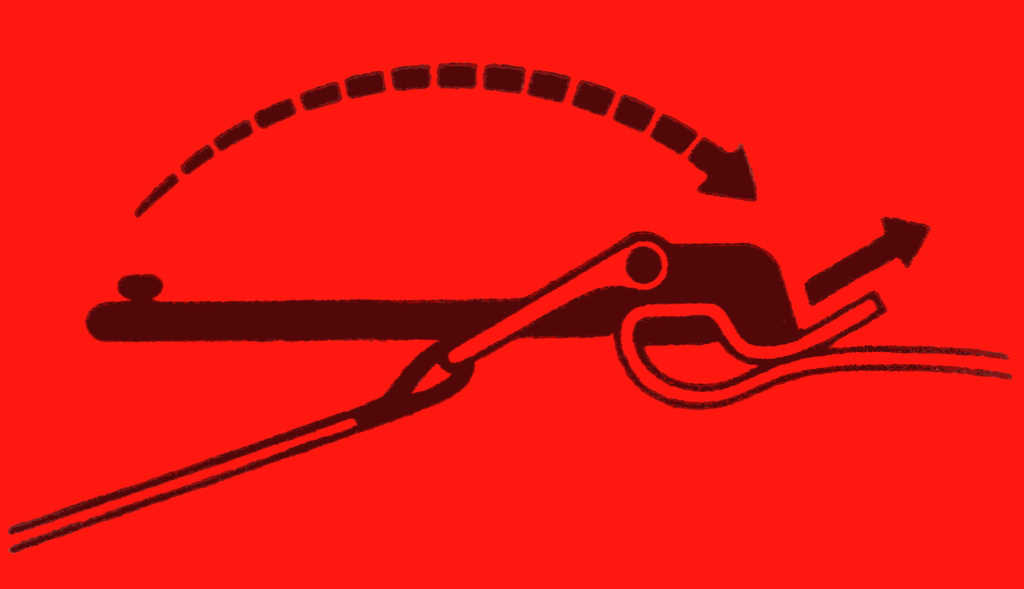 ludhof tension belt